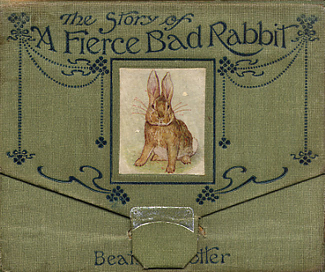 Cover of the first edition of The Story of a Fierce Bad Rabbit in wallet panorama format